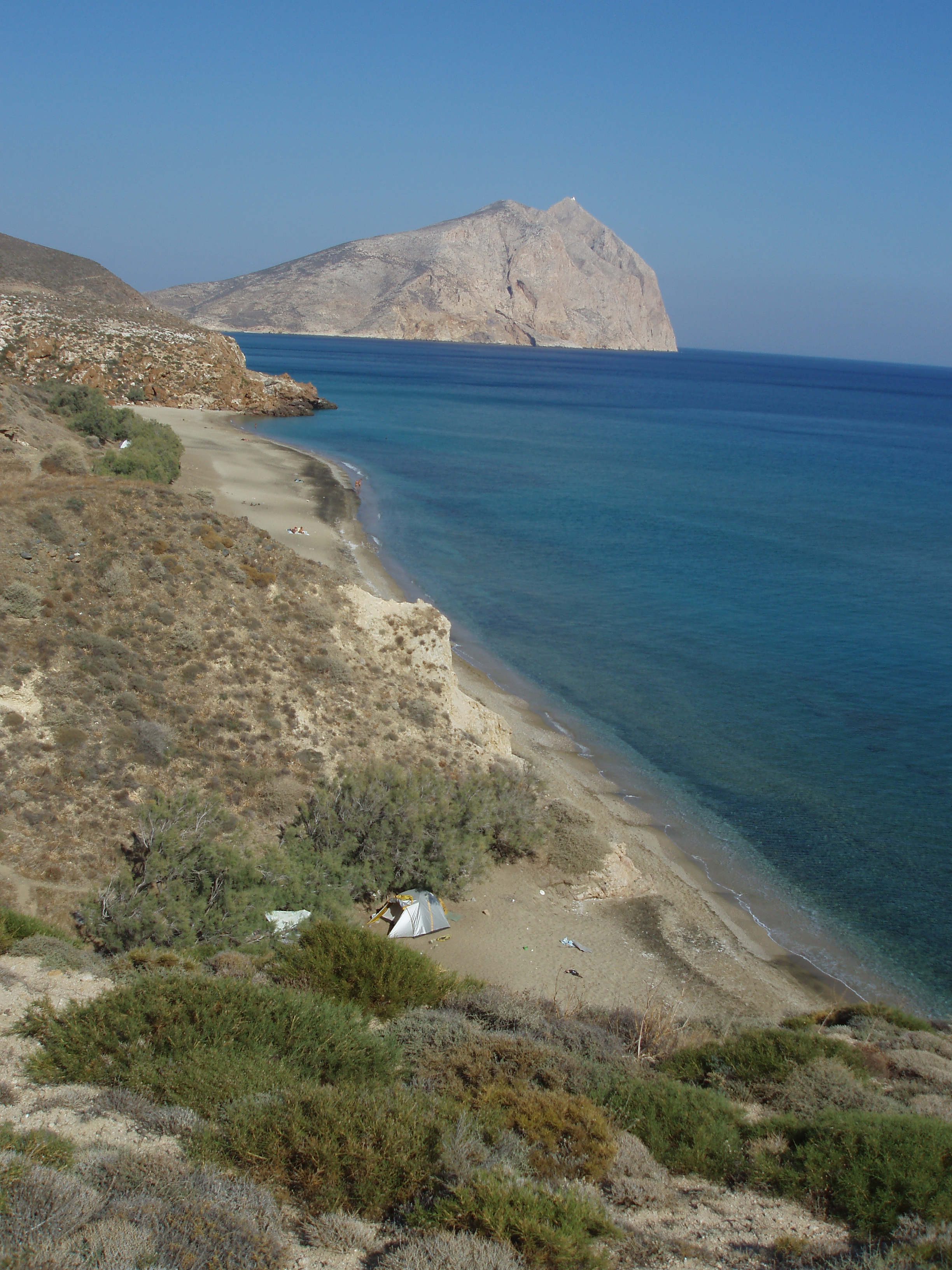 Anafi's south coast with Cape Kalamos